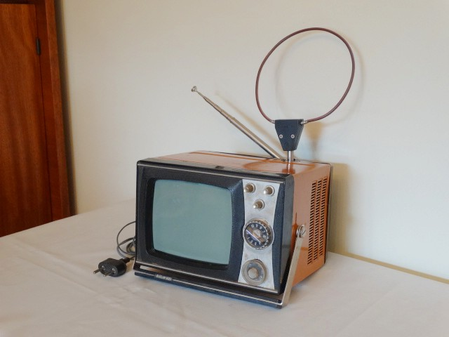 B/w TV set Šilelis 401D, screen 16 cm, made in Lithuania. Collection of Zenonas Langaitis